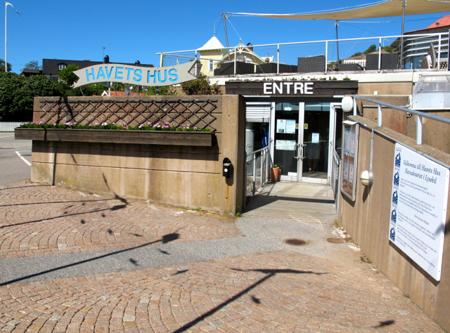 Havets hus in Lysekil, Sweden